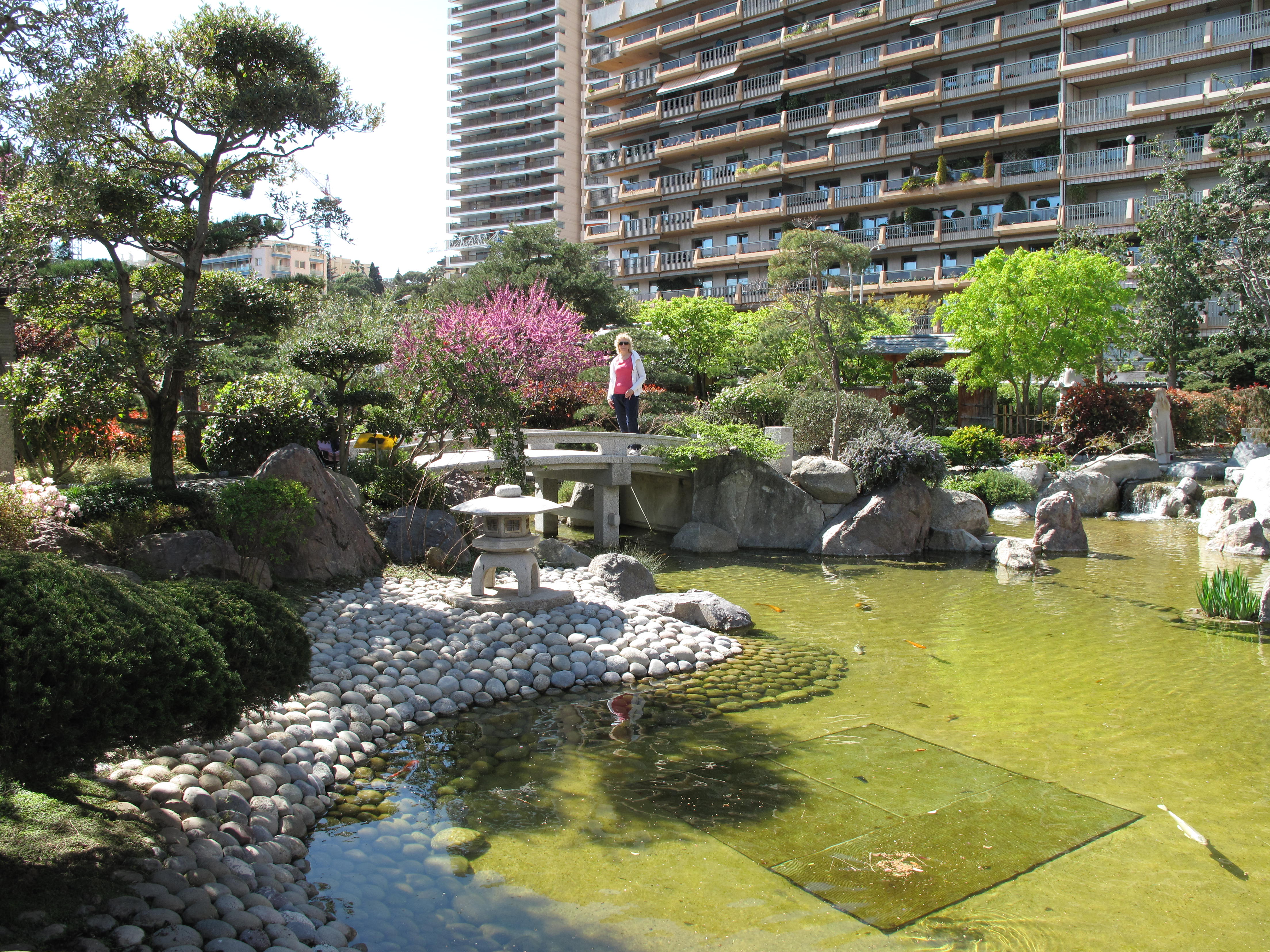 Japanese garden of Monaco